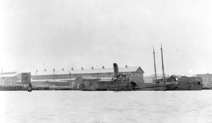 The commercial trawler East Hampton prior to her United States Navy service as the patrol vessel, minesweeping, and lightvessel .